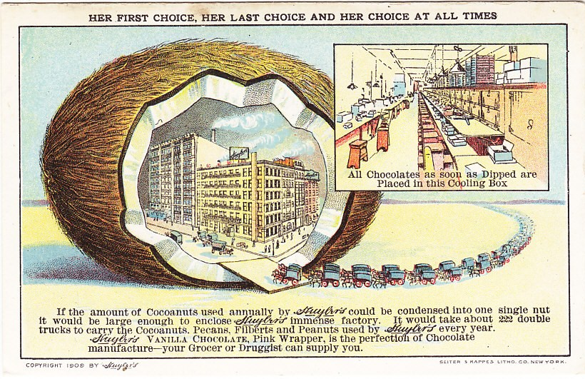 Advertising postcard featuring a factory in a coconut for the Huyler's candy company